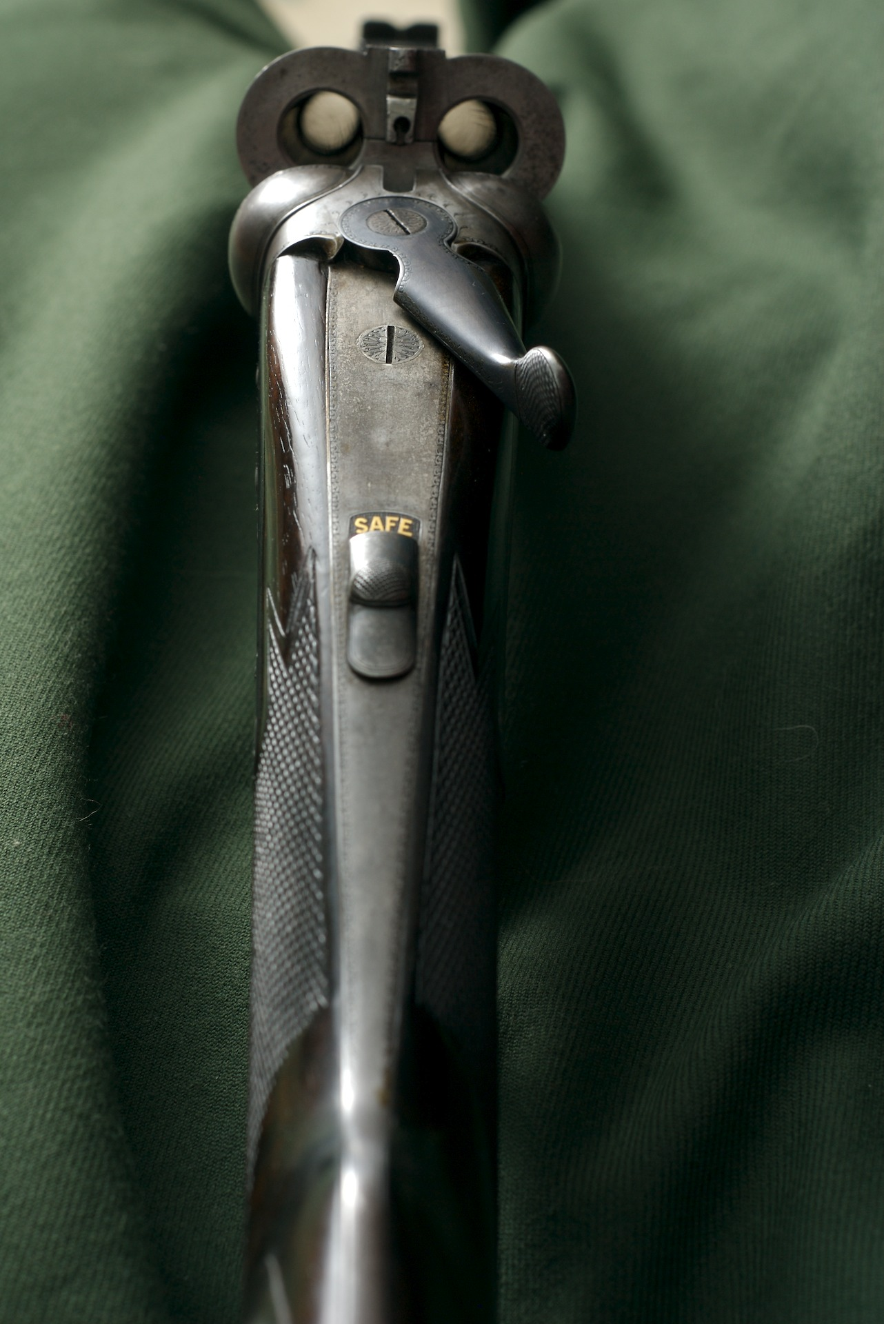 Holland and Holland .375 H&H Magnum Double Rifle, From the Breech